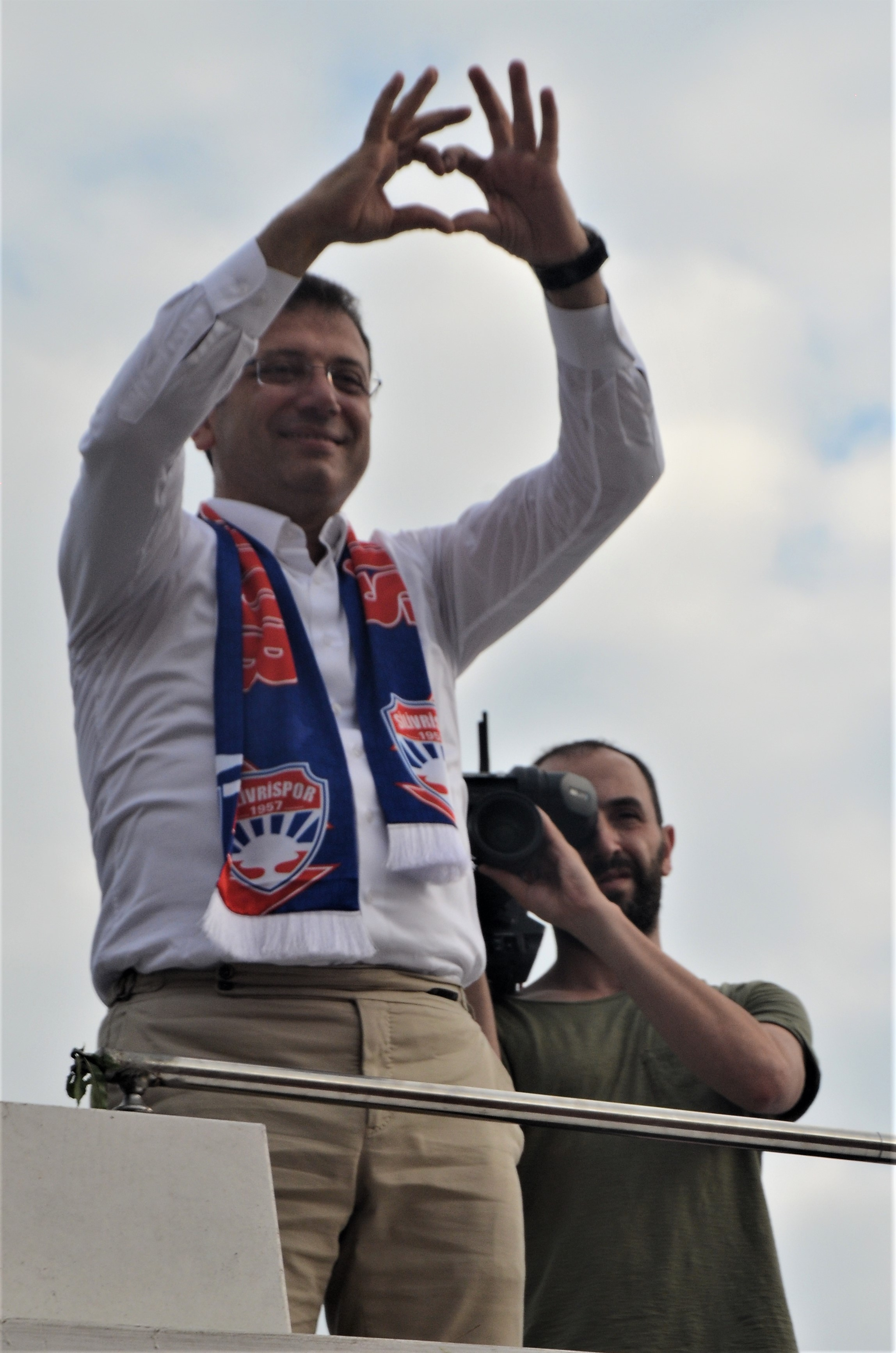 Ekrem İmamoğlu's June 2019 Istanbul mayoral election campaign in Silivri. İmamoğlu showing a love sign.